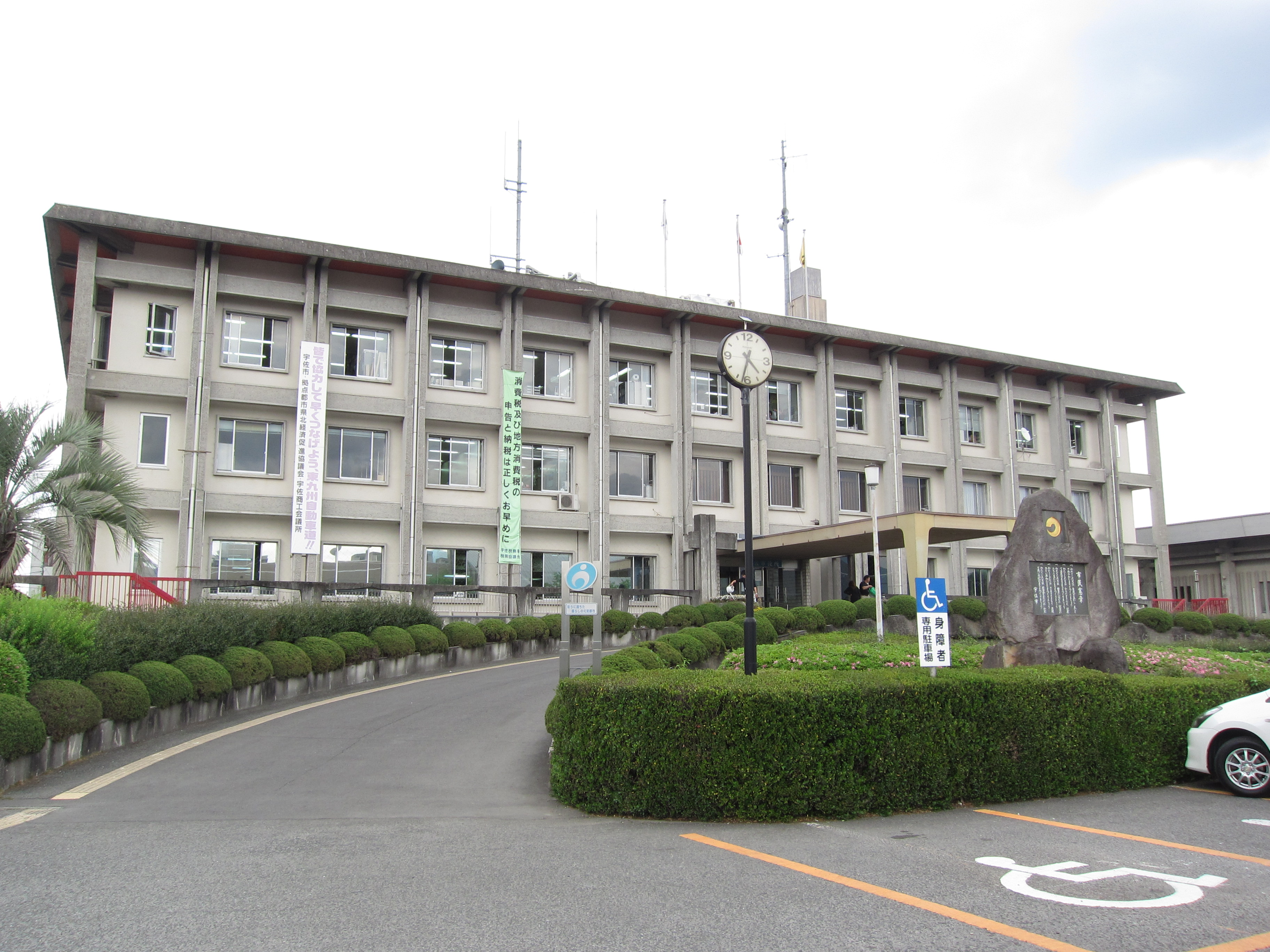 Oita Pref-Usa City Hall